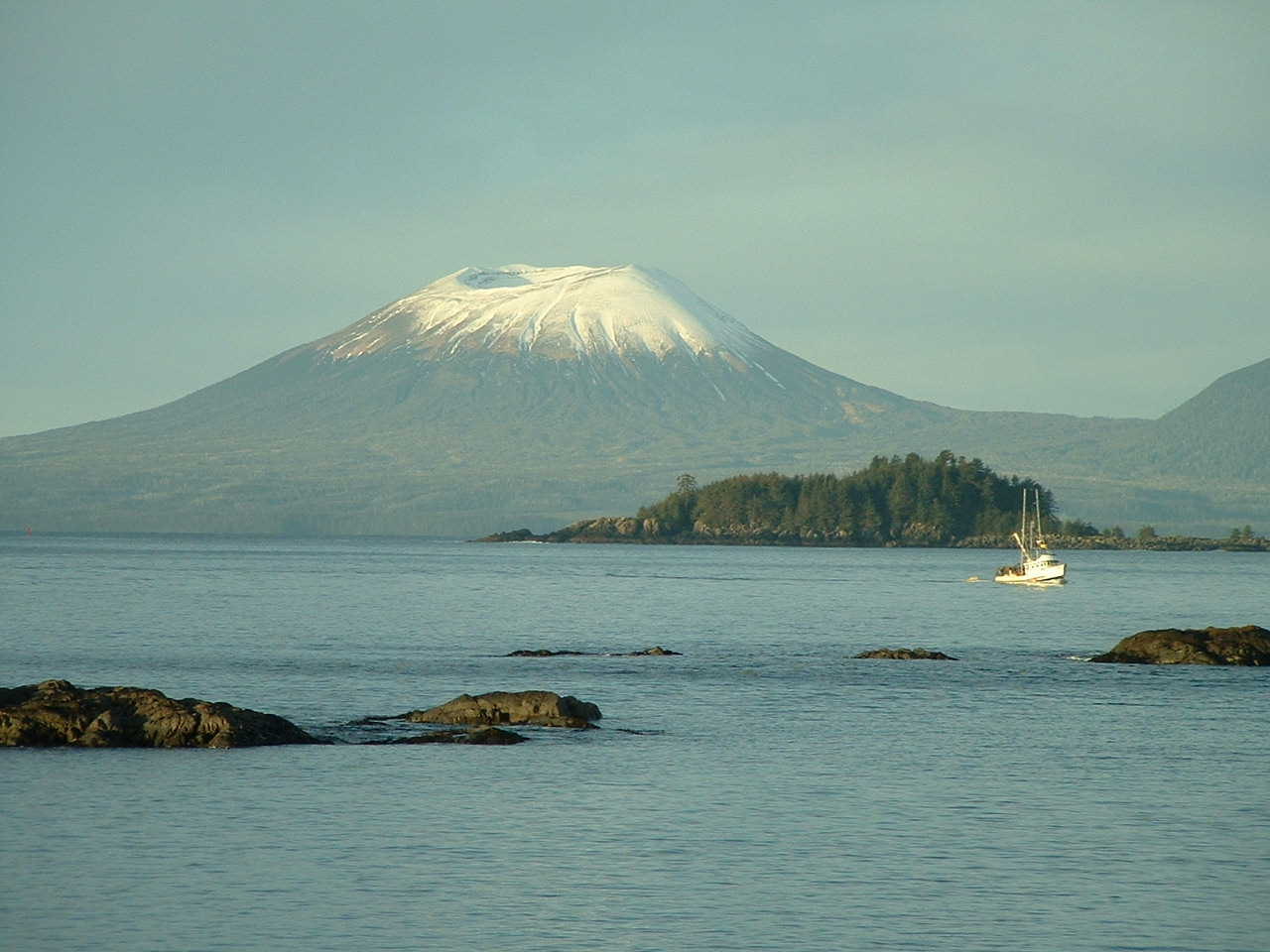 photo of Mount Edgecumbe, Alaska.